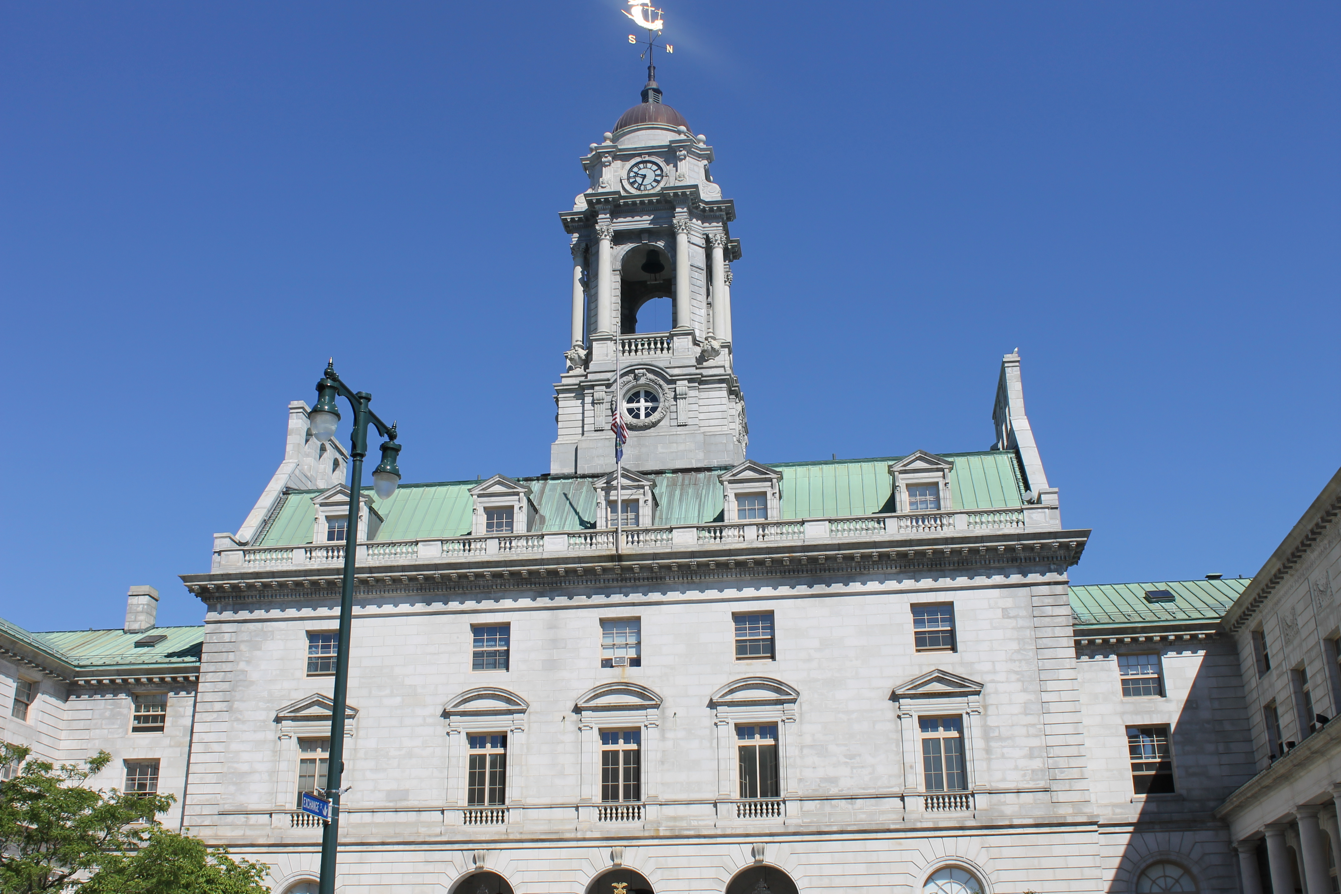 I took photo of City Hall in Portland, ME, with Canon camera.